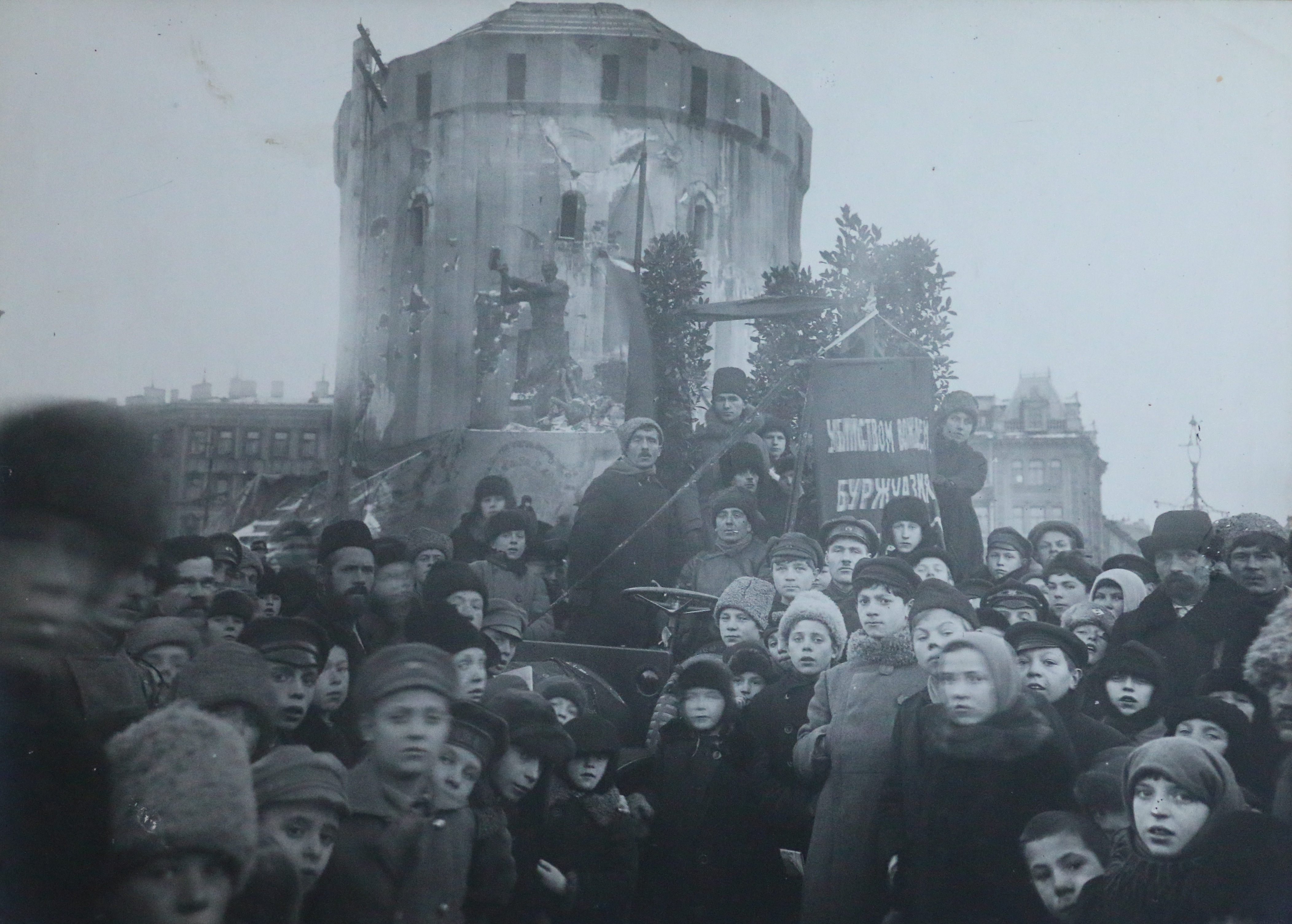 Boris Souvarine Papers - Soviet Russia Photos On the back, in